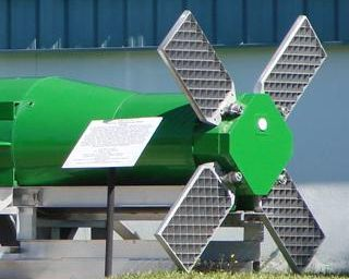 Cropped and version of public domain work to isolate the grid fins.